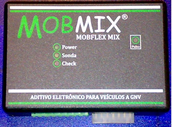 Eletronic device to improve performance in CNG / LPG engines.